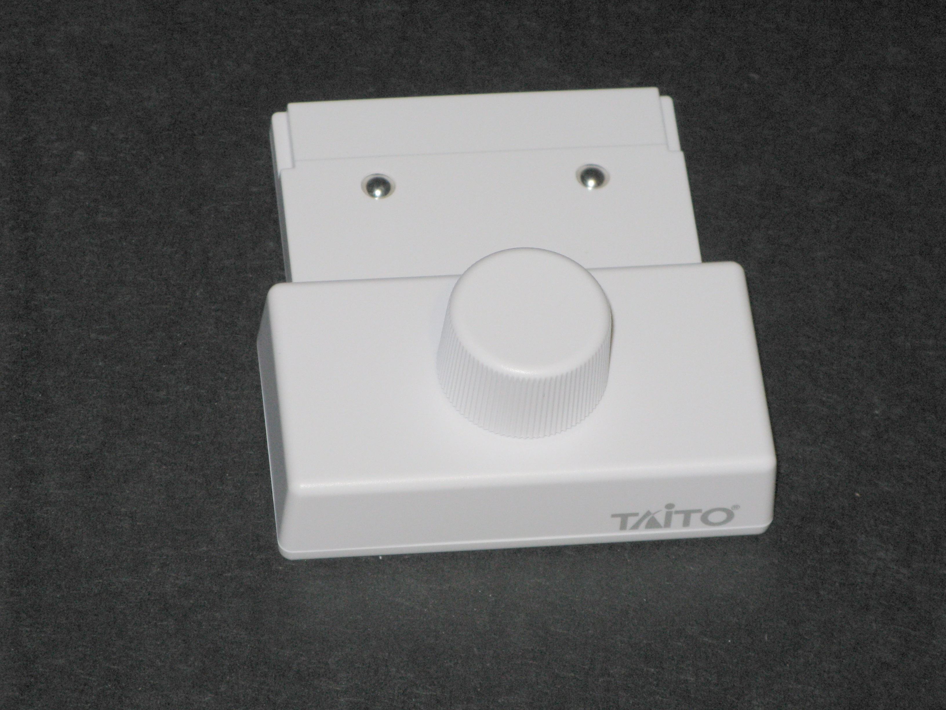 The Taito Paddle controller for the Nintendo DS. For use with Arkanoid and Space Invaders Extreme. (Photograph taken by user:ApLundell)